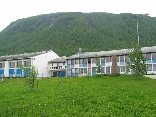 Tromstun ungdomsskole in the summer. (A high school in Tromsø, Norway).